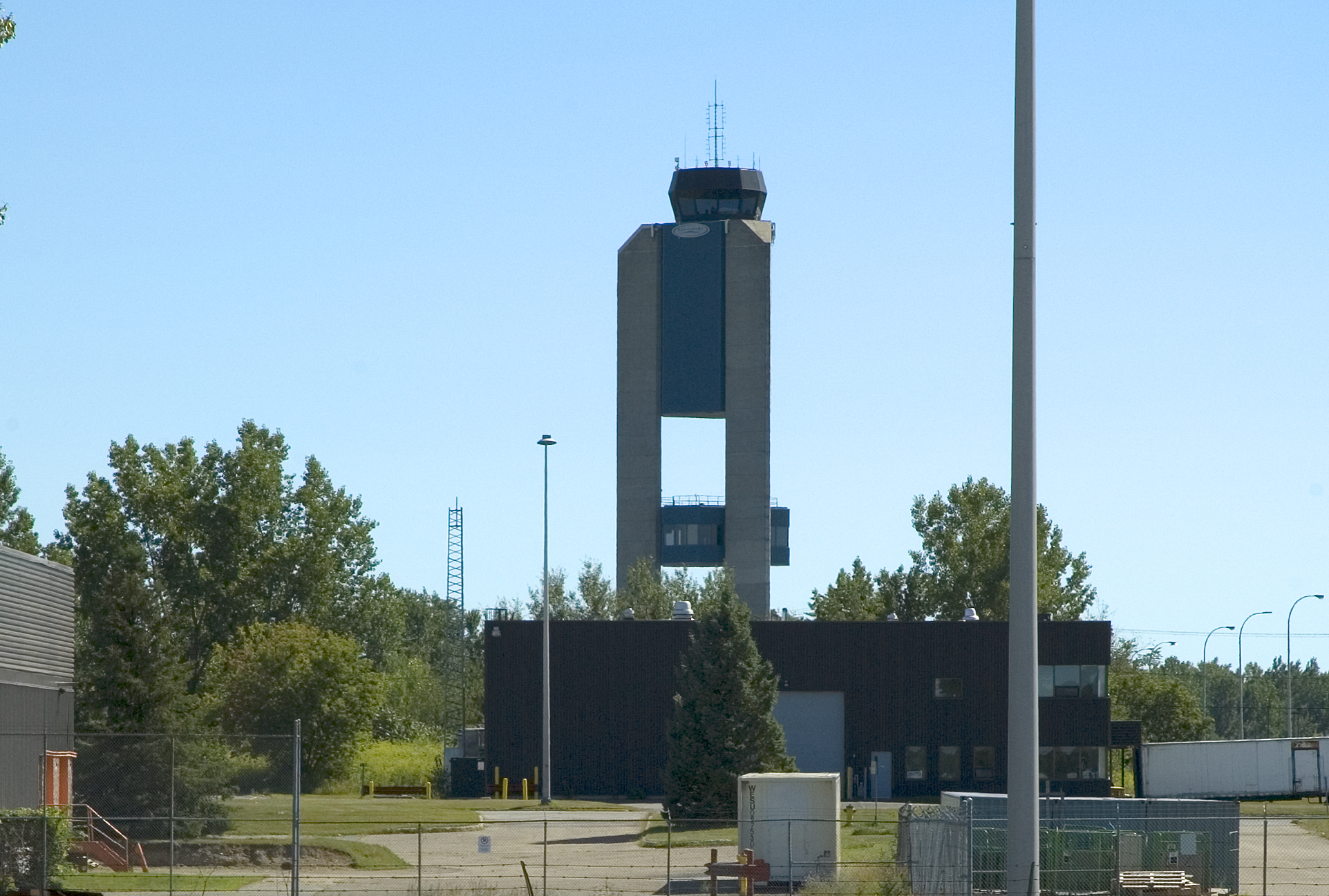 Mirabel Airport – Control tower. Air traffic control operations ceased 2008.